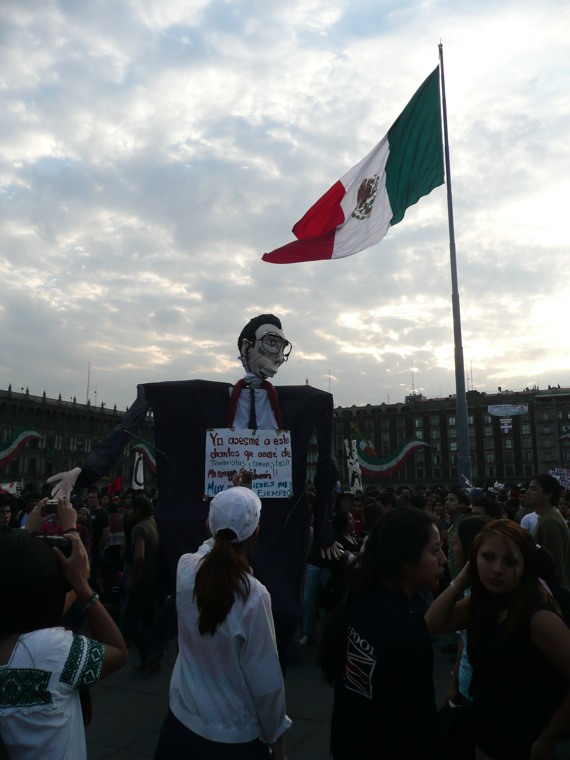 Effigy of President Gustavo Diaz Ordaz during Tlatelolco 1968 march